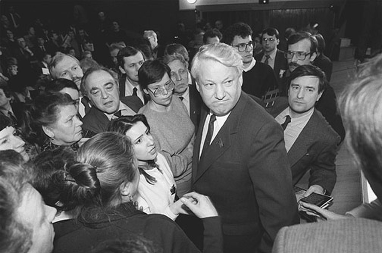 MOSCOW. In 1989 in Moscow\'s territorial electoral district No. 13, the Kuntsevsky district, first deputy Director of Gosstroi is elected candidate to the Congress of People\'s Deputies at the district\'s pre-electoral assembly for nominating candidates to the Congress of People\'s Deputies. Photograph: Boris Yeltsin giving an interview during a break in the meeting.